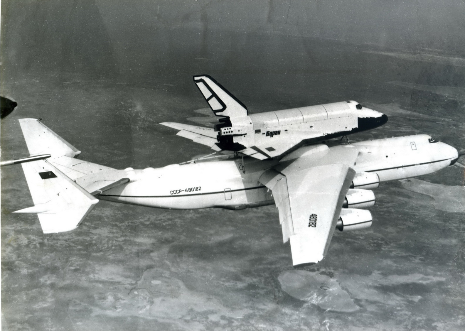 Antonov An-225 with Soviet space shuttle Buran on top